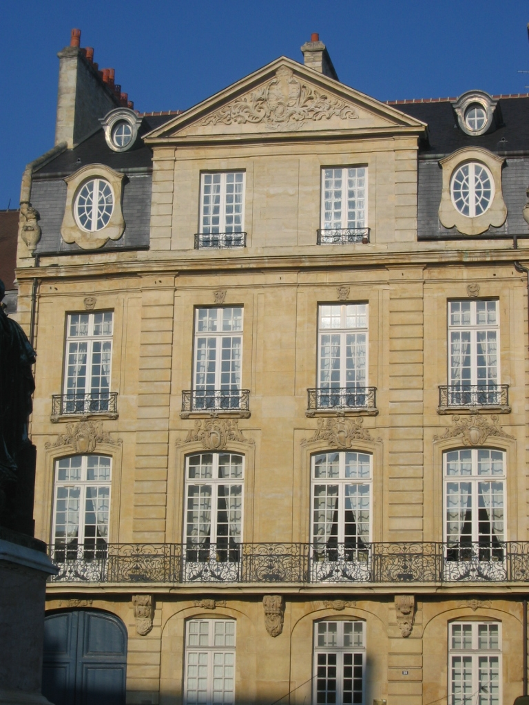 Hôtel Fouet, 18th century, place Saint-Sauveur, Caen (Calvados).